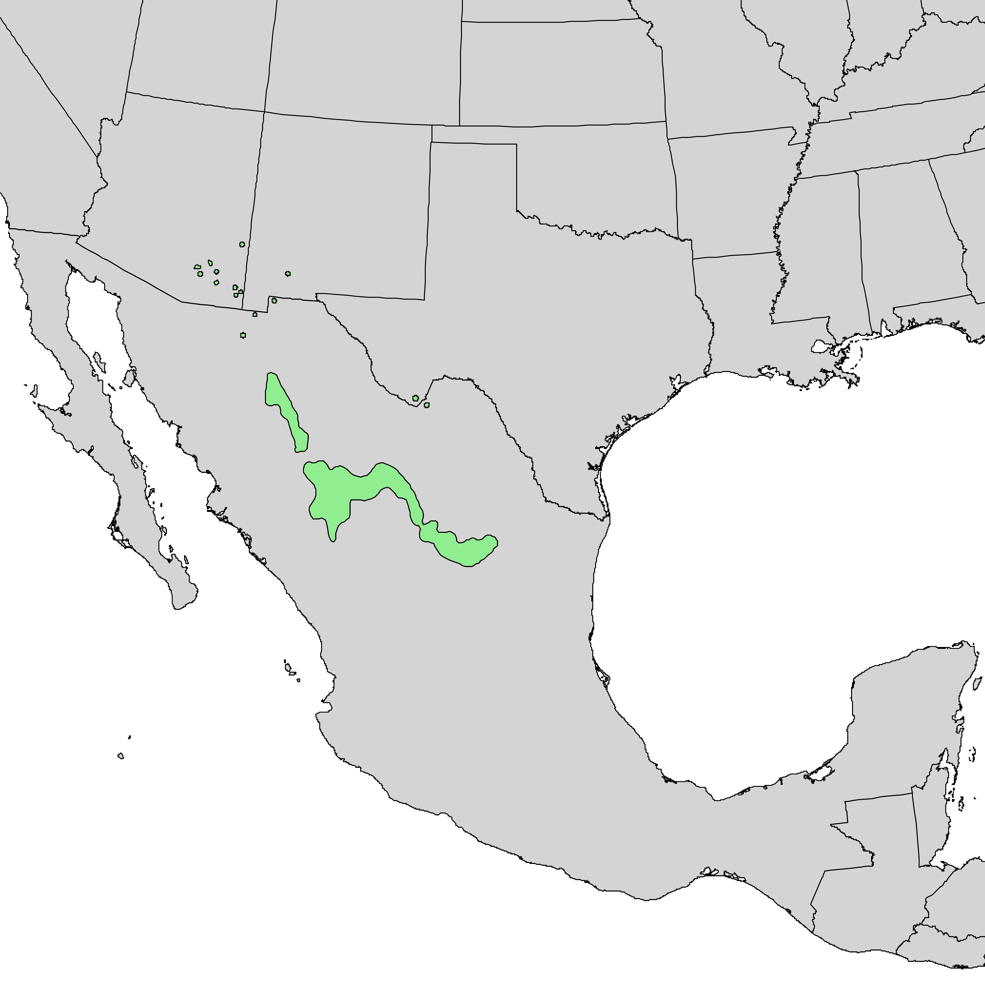 Natural distribution map for Cupressus arizonica